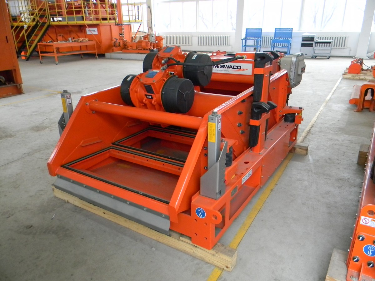 Shale shaker in a workshop